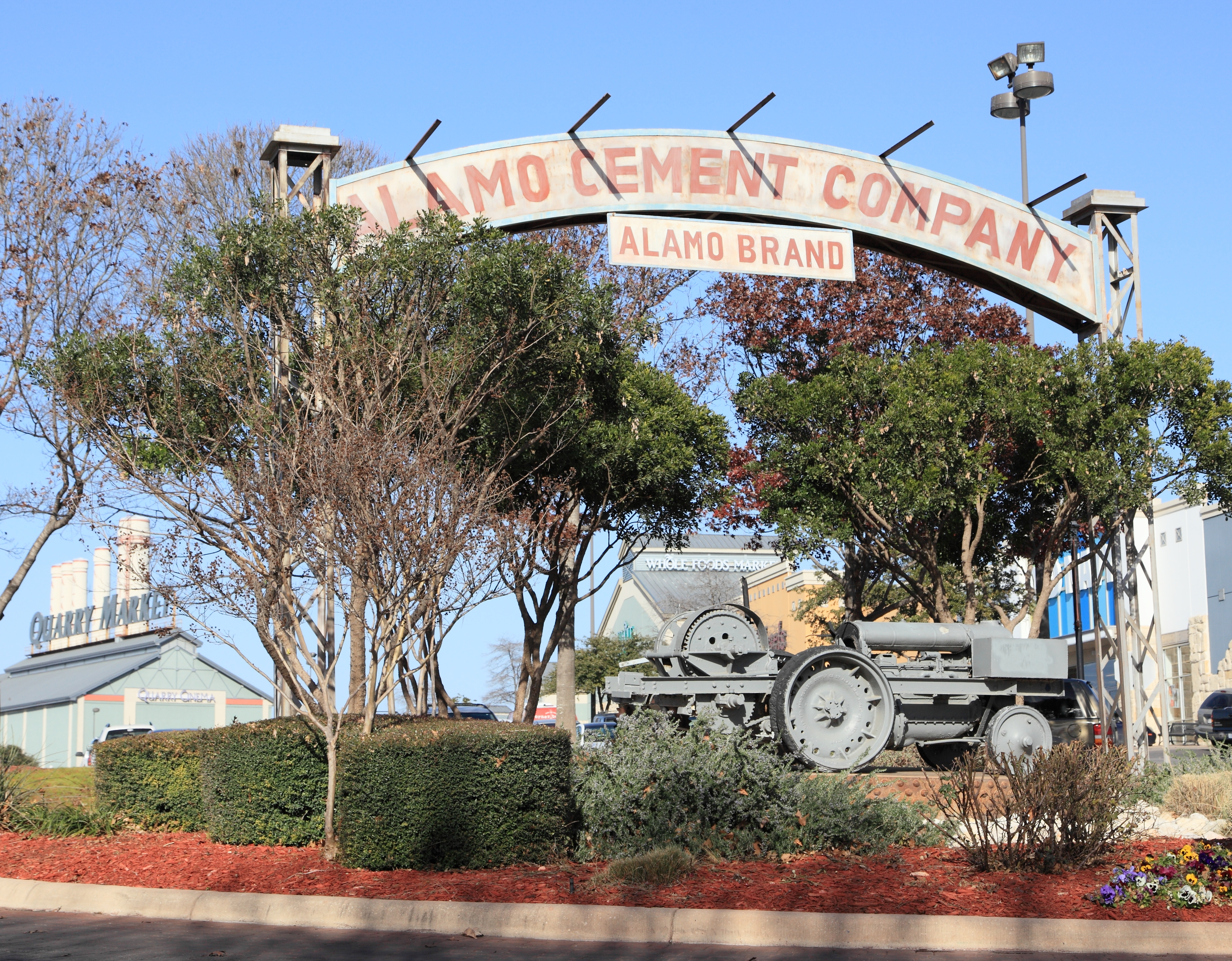 The entrance to the Alamo Quarry Market in San Antonio, Texas, USA. This is the view from Basse Road, showing the original sign from the former cement plant. This spot is decorated with a vintage Ford Fordson farm tractor. The old cement plant smokestacks are visible in the background at the left